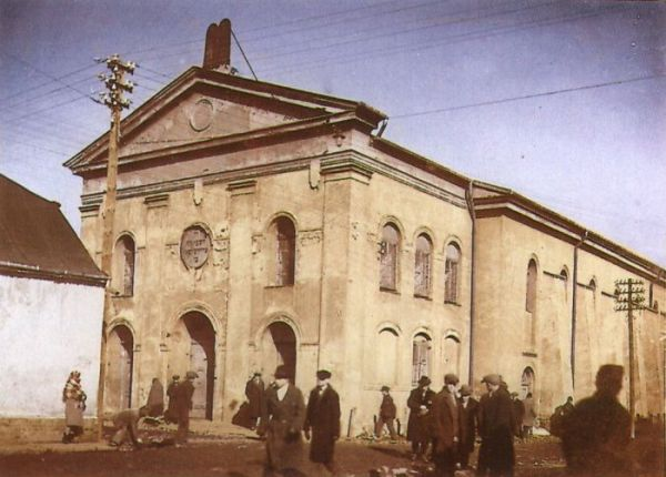 Old synagogue in Częstochowa